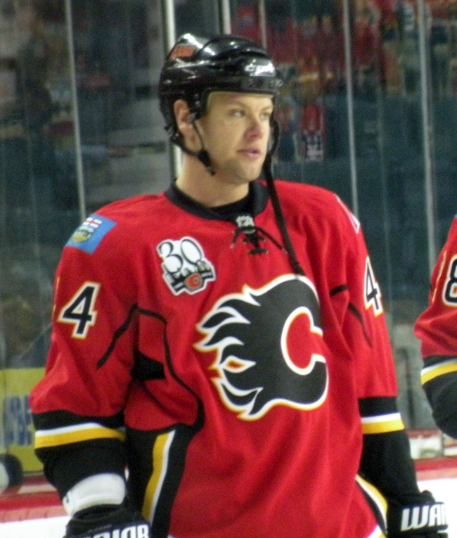 Calgary Flames defenceman Aaron Johnson prior to a National Hockey League game against the Columbus Blue Jackets in Calgary.